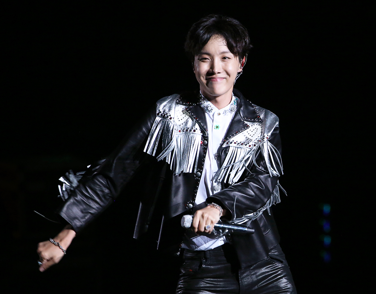 J-Hope at the Love Yourself world tour in Seoul, August 25-26, 2018, at Jamsil Olympic Stadium